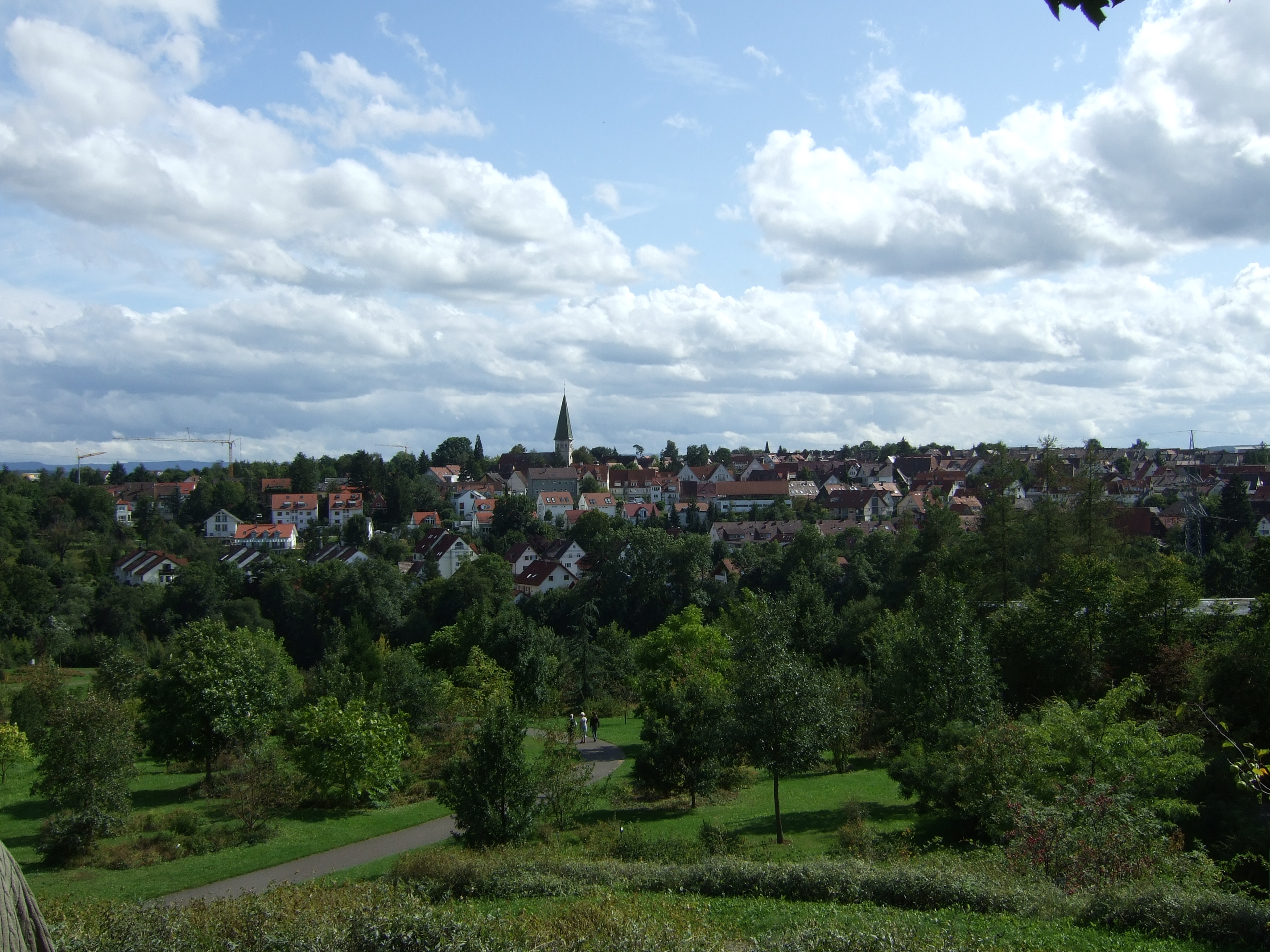 Stuttgart-Plieningen